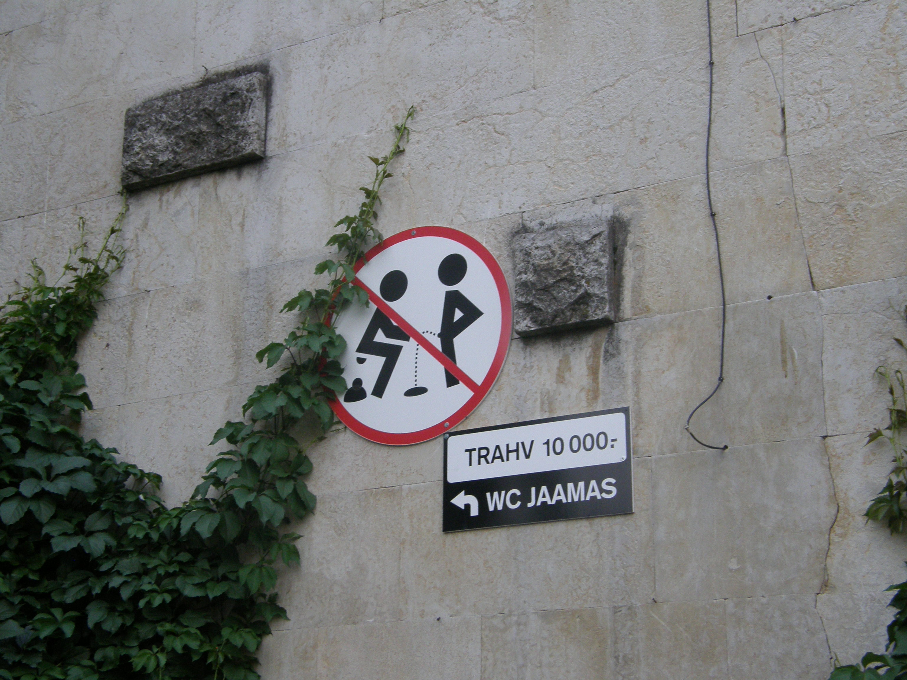 A sign on the wall of Balti Jaam in Tallinn. The signs say that the fine for public "business" is 10,000 EEK (the equivalent of 639.12€), and that the appropriate facilities are inside the station.